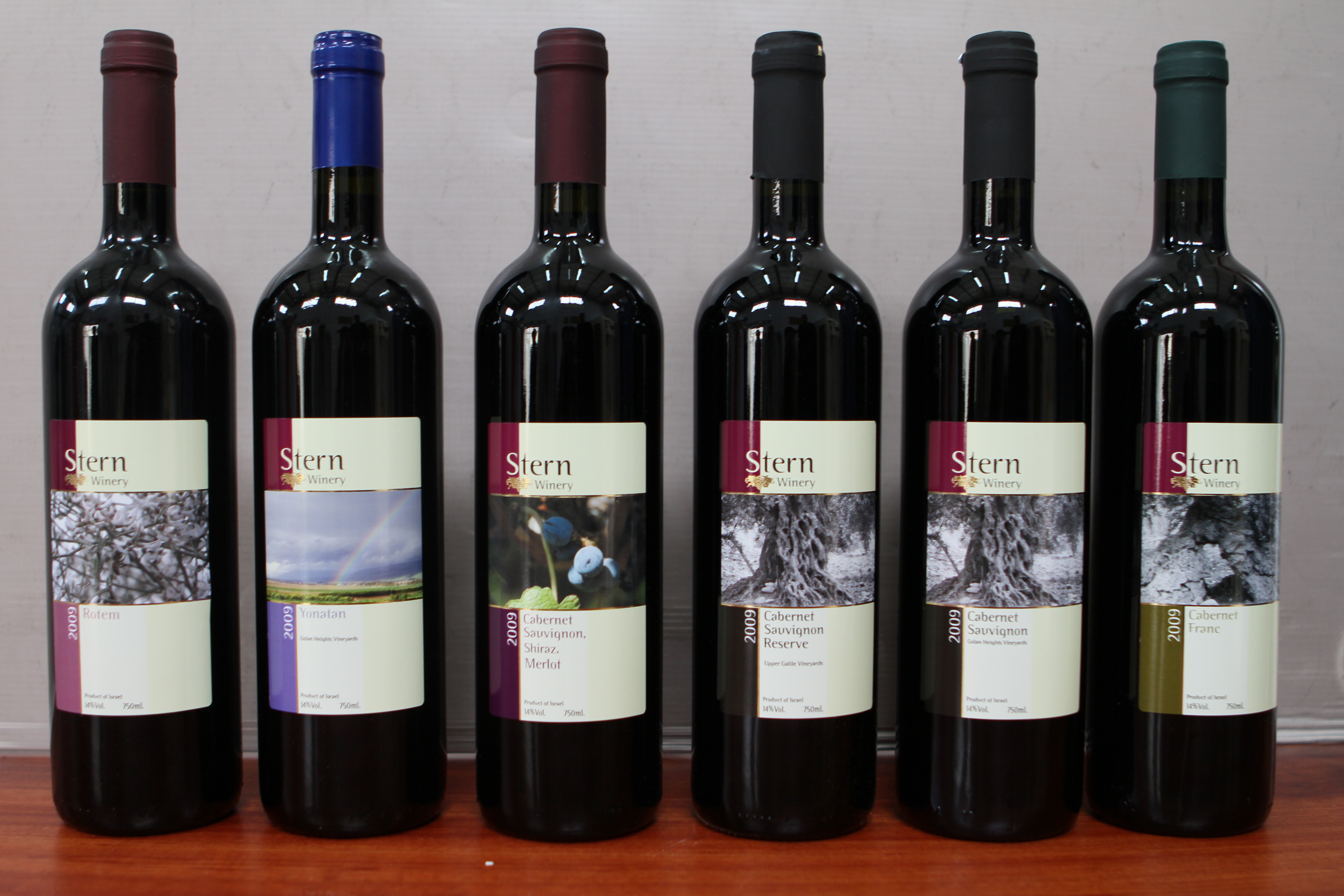 2009 Wine Collection of the Israeli Stern Winery בקבוקי 2009 של יקב שטרן מהגליל